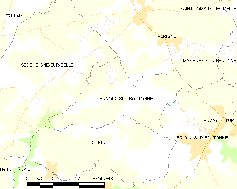 Map of French municipality Vernoux-sur-Boutonne